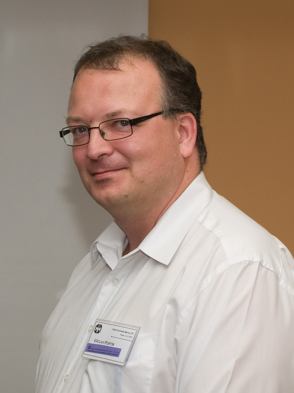 Václav Fořtík, former chairman of Mensa Czech Republic